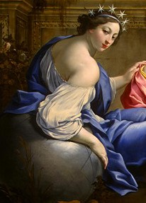 Low resolution detail of the muse Urania from The Muses Urania and Calliope